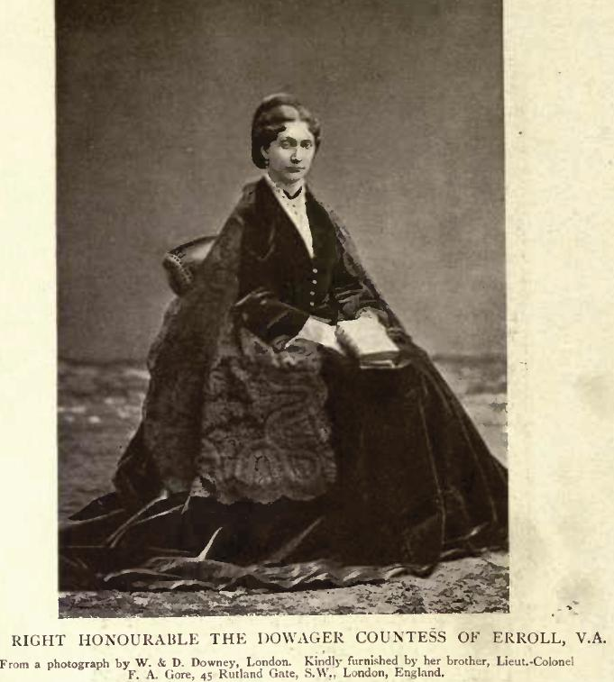 Eliza Amelia Gore, Dowager Countess of Erroll (1829-1916)